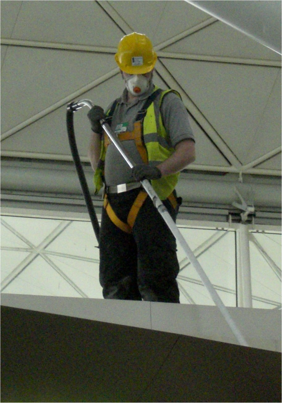 Worker with safety equipment in London, Great Britain